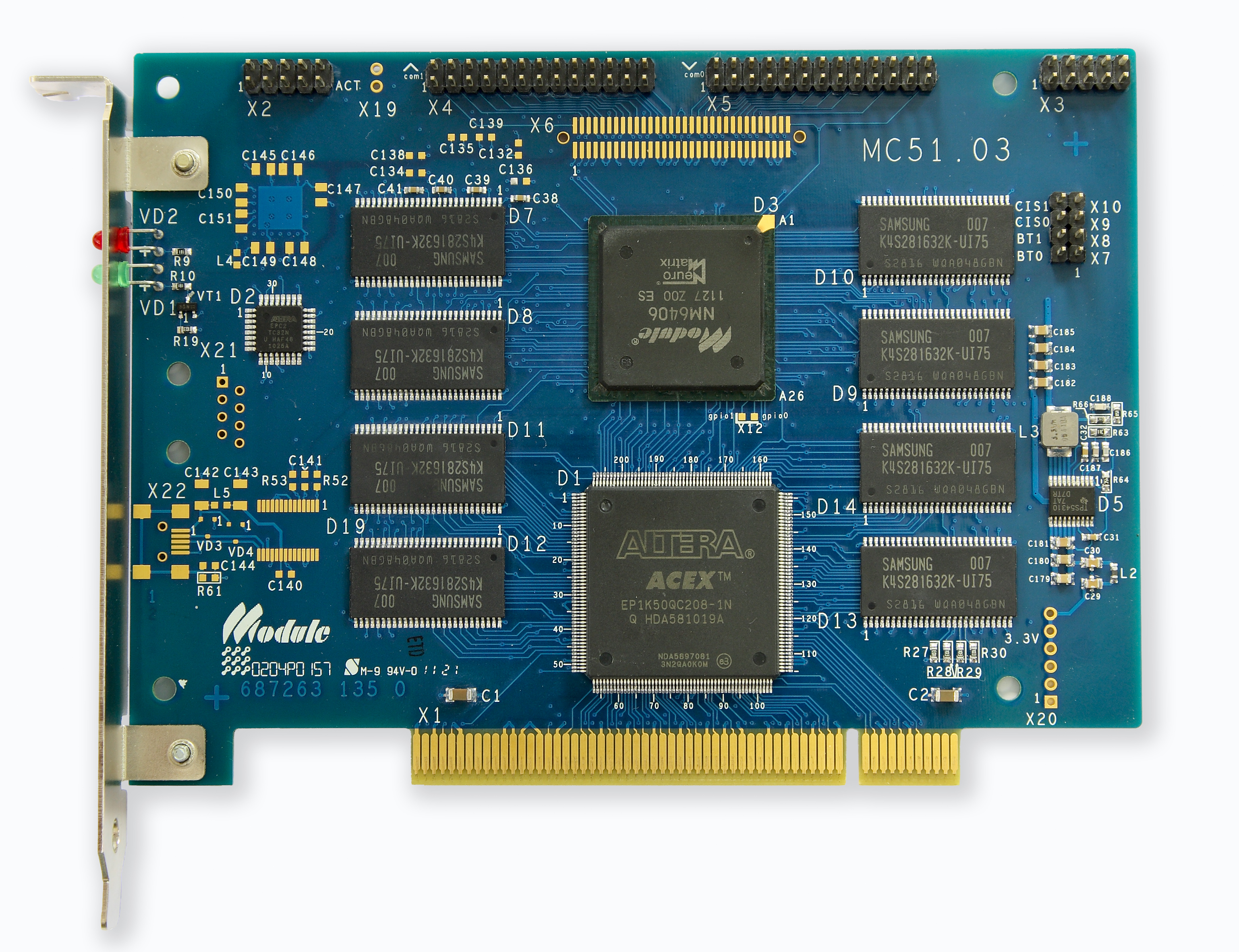 MC51.03 board with nm6406 NeuroMatrix processor